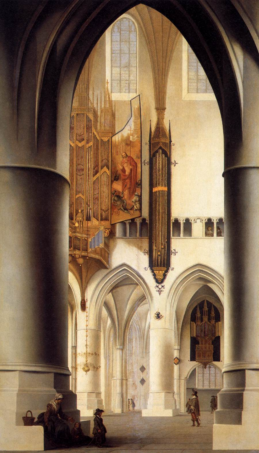 Interior of the Grote Kerk or St Bavokerk in Haarlem, seen from the southern ambulatory through the choir onto the northern ambulatory with the large organ. A woman with two children sit at the left column. On the shutter of the organ is painted the Resurrection of Christ. On a wall in the northern ambulatory there is a second, smaller organ.